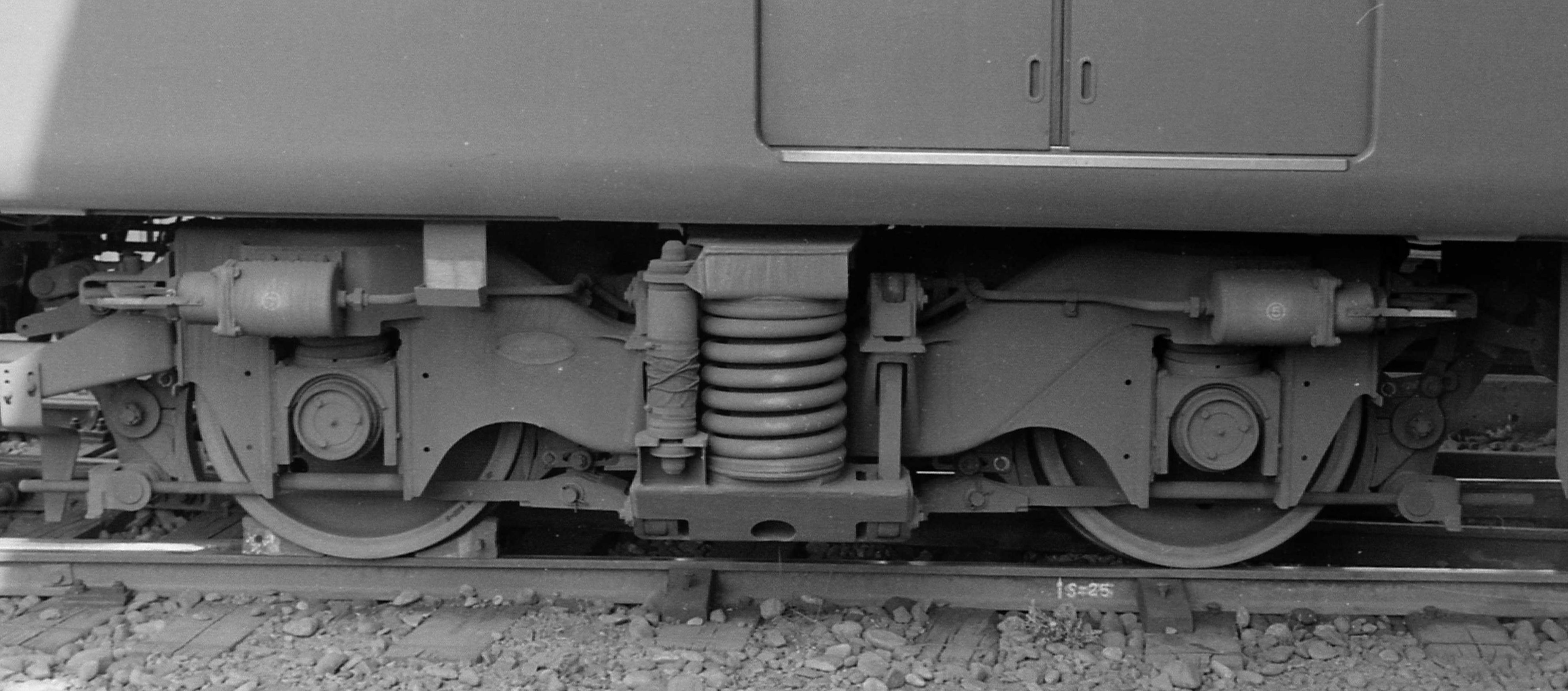 NA-36 bogie truck on Nagaden 11 at Suzaka